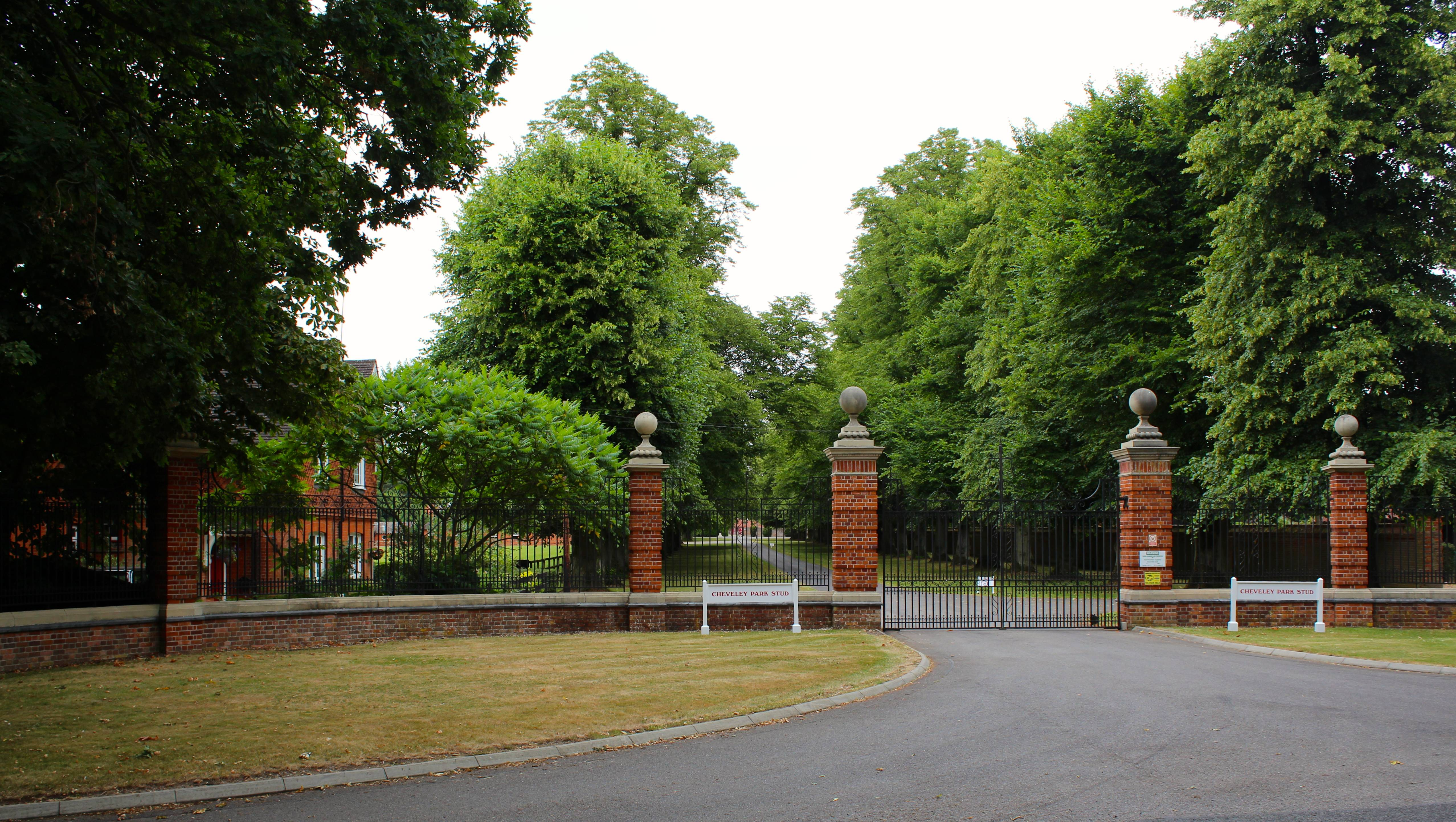 An entrance to the Cheveley Park Stud in Newmarket, Suffolk, UK